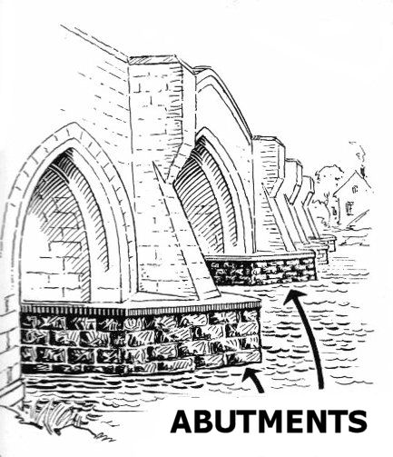 line art of abutment